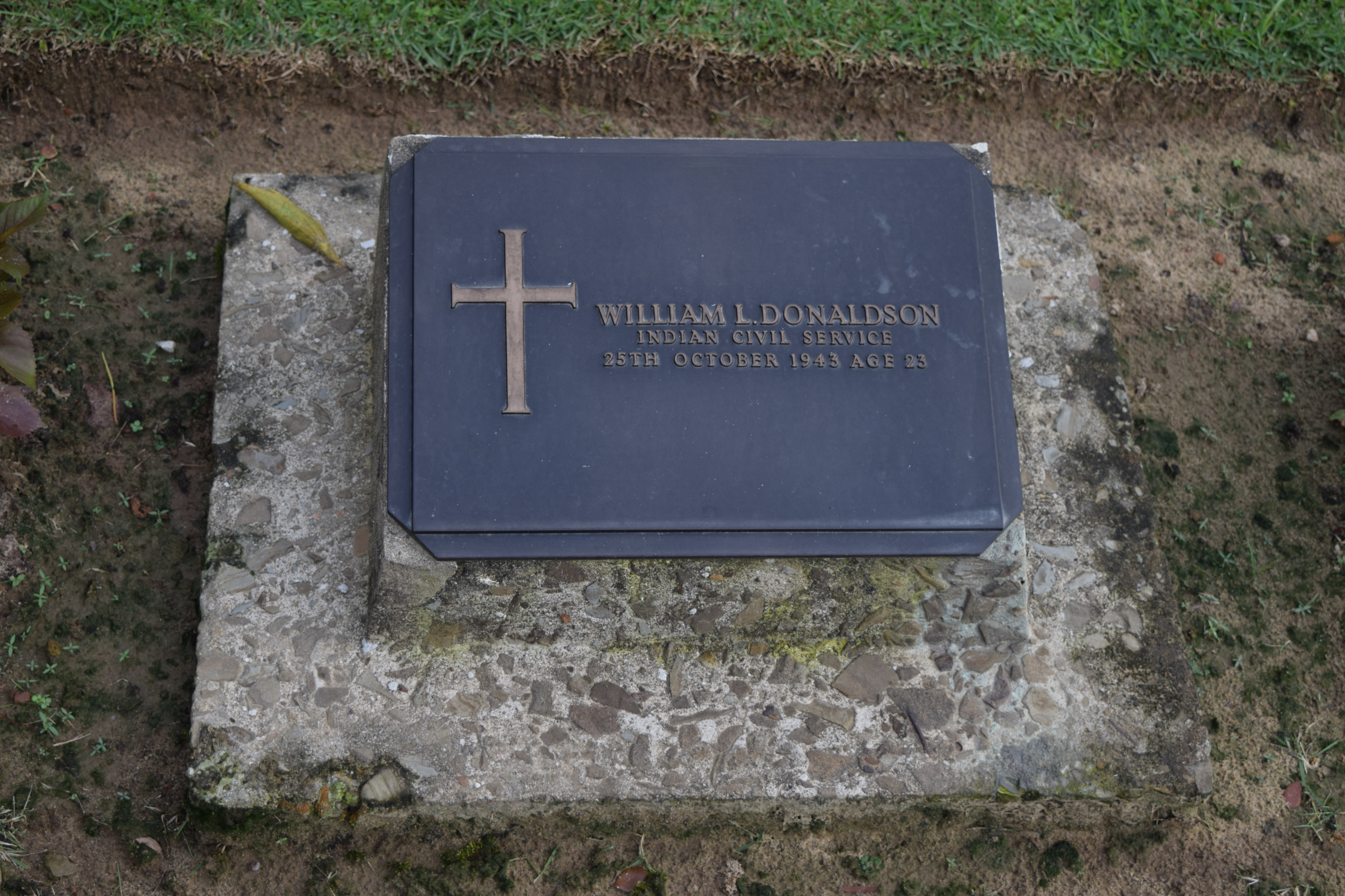 Grave of William L. Donaldson, a member of Indian Civil Service